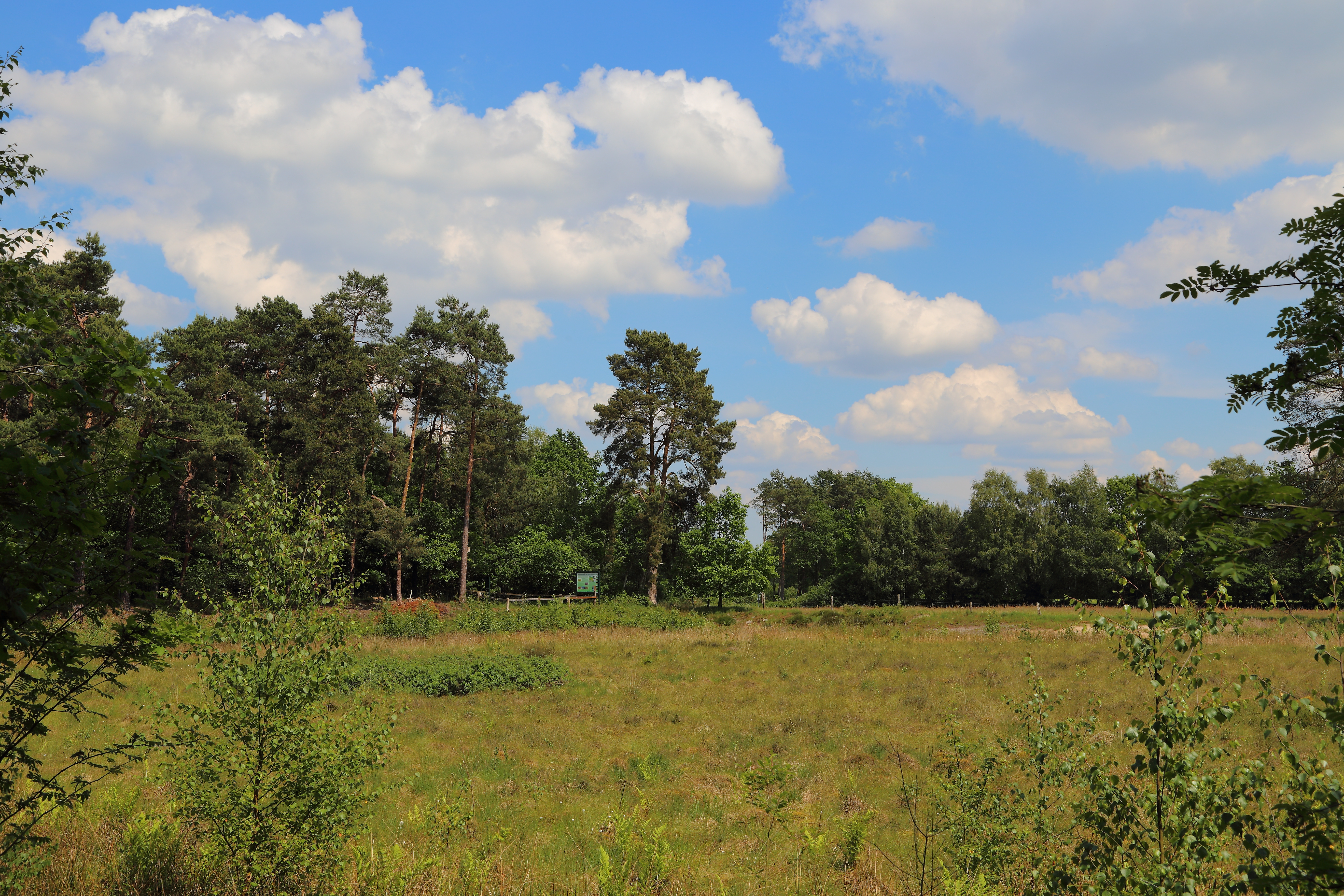 The bog „Koffituten“ in the nature reserve (Naturschutzgebiet/NSG) of the same name in Hopsten-Schale, Kreis Steinfurt, North Rhine-Westphalia, Germany.